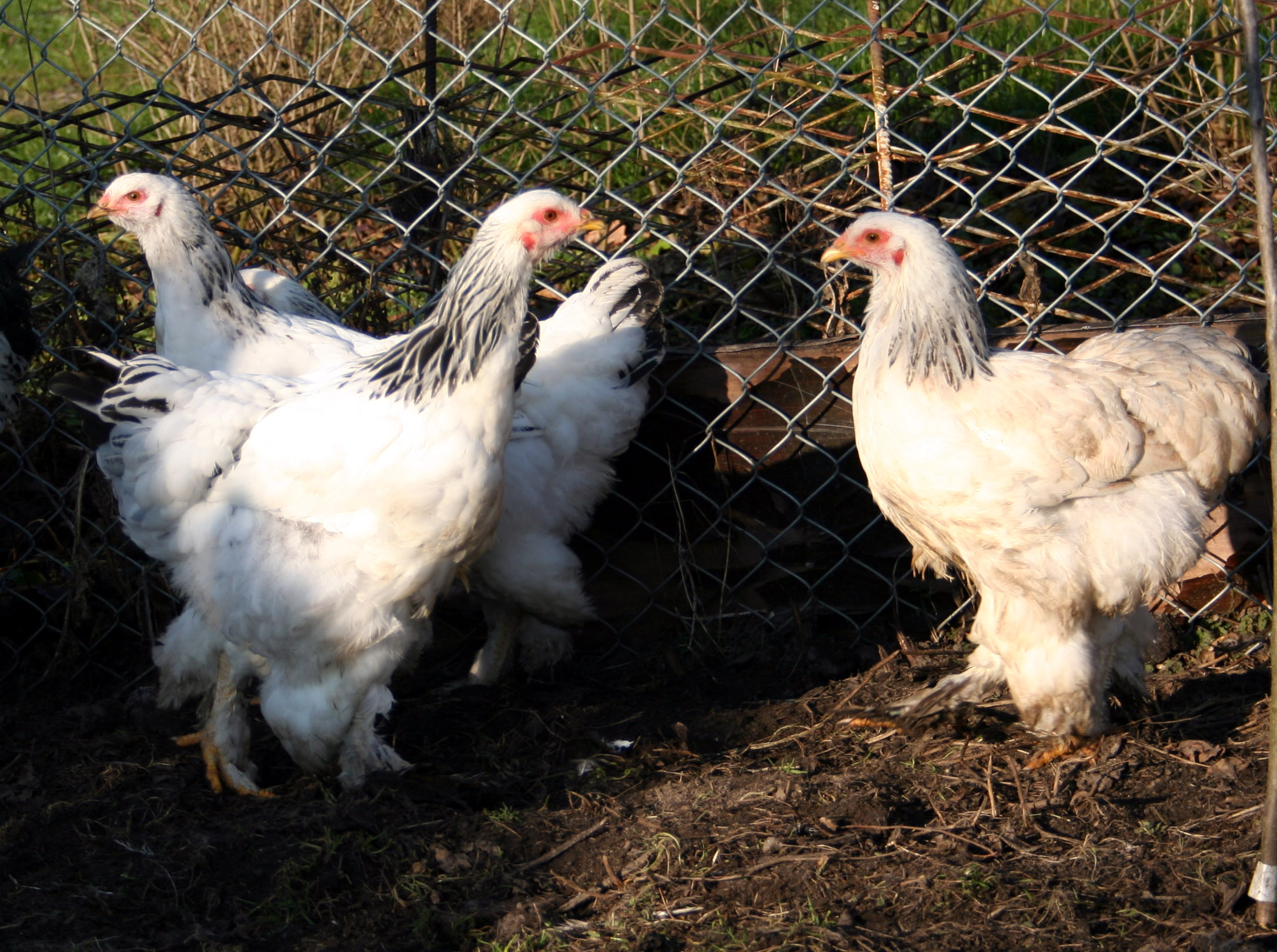 Brahma (chicken)